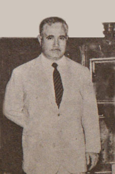 Muhammad al-Rubai'i, first president of Iraq.